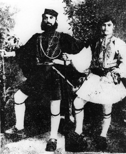 Konstantinos Dogras and unknown Macedonian fighter